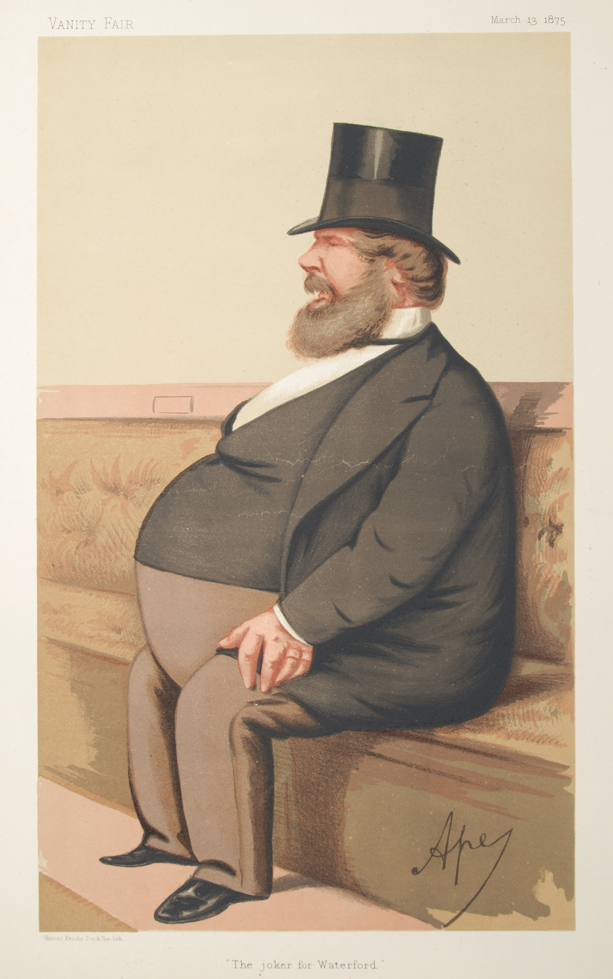 Statesmen No.197: Caricature of Maj Purcell O'Gorman MP (1818-1888). Caption reads: "The joker for Waterford."